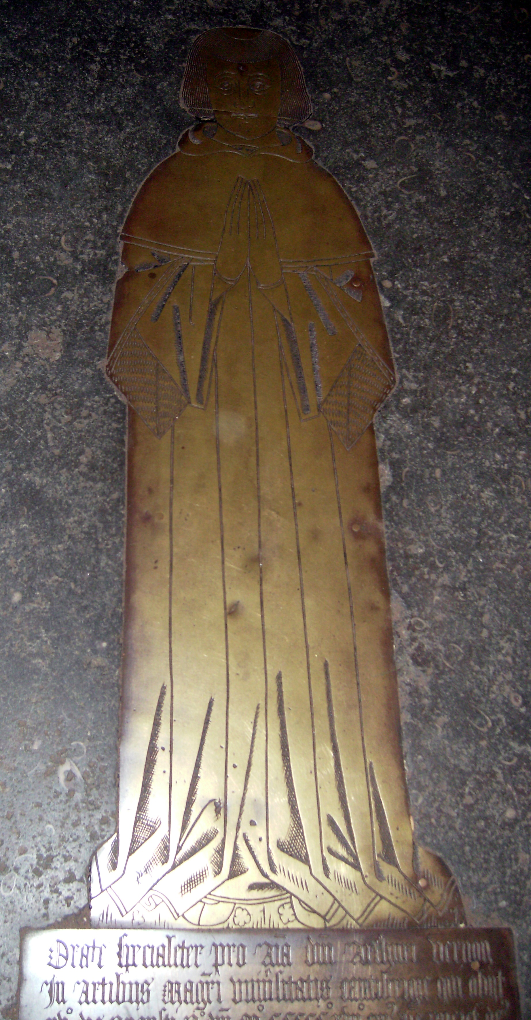 Monumental brass commemorating Arthur Vernon, priest and son of Anne Talbot and Henry Vernon, in the robes of a University of Cambridge MA, on his tomb in St Bartholomew's parish church, Tong, Shropshire